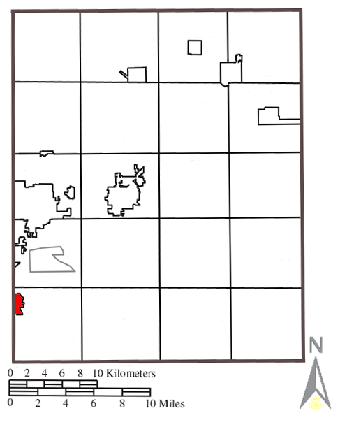 Map of Portage County, Ohio with the village of Mogadore highlighted.